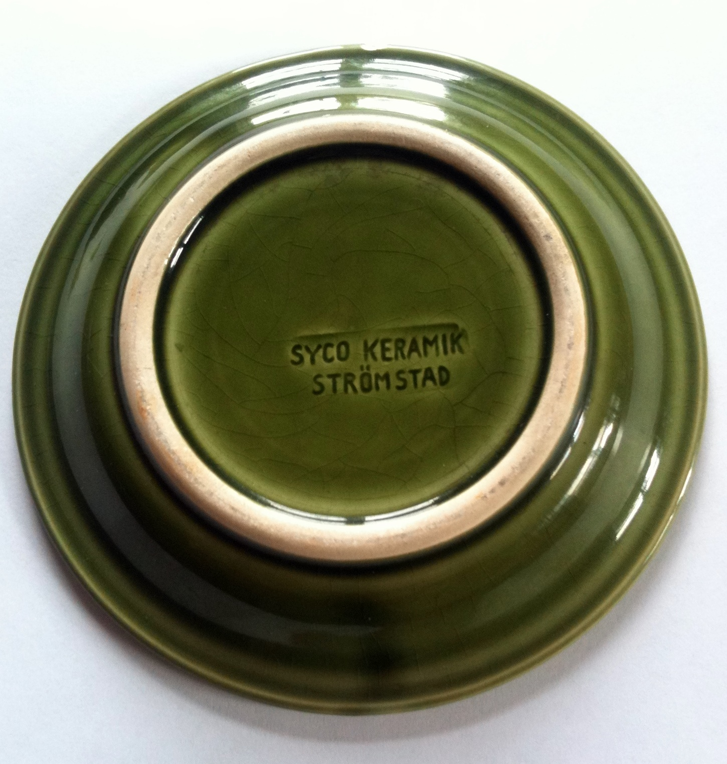 Syco mark